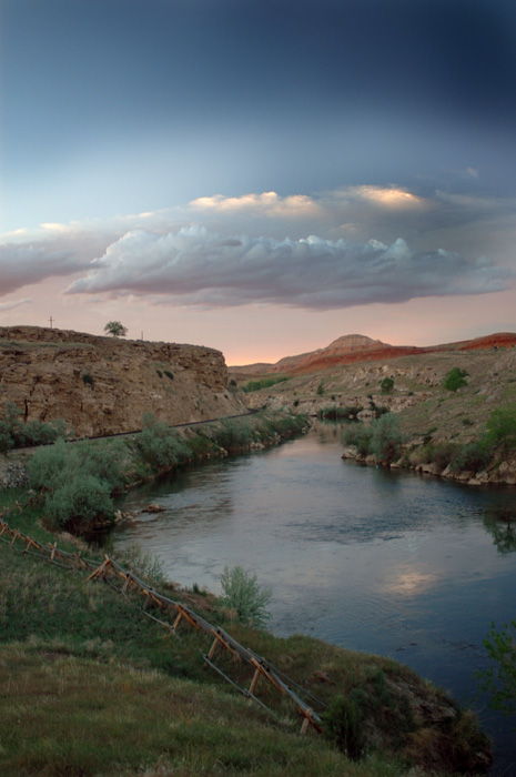 Photo by Mike DeLeonardis (